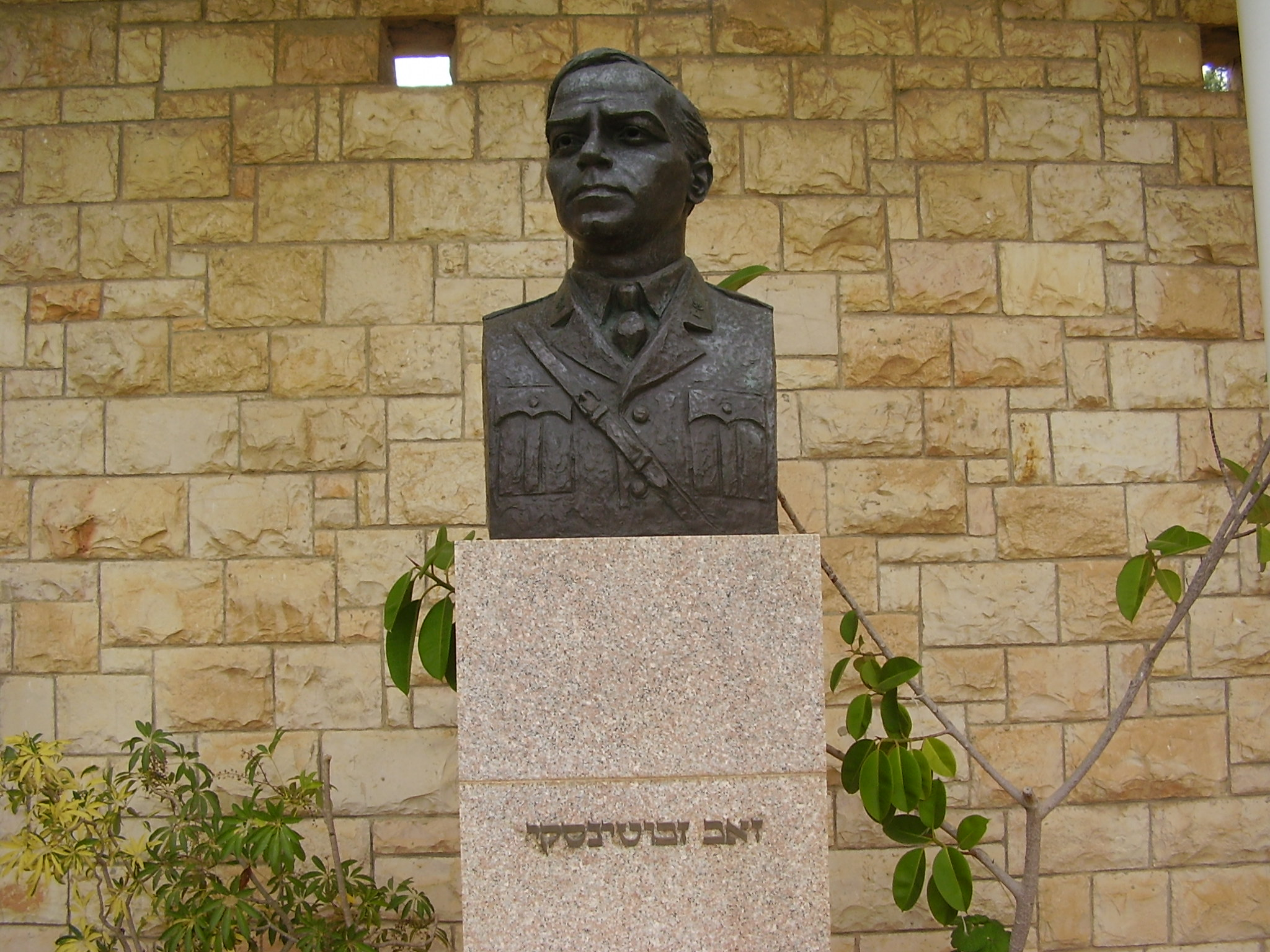 Sculpture of Ze'ev Jabotinsky in Avihayil